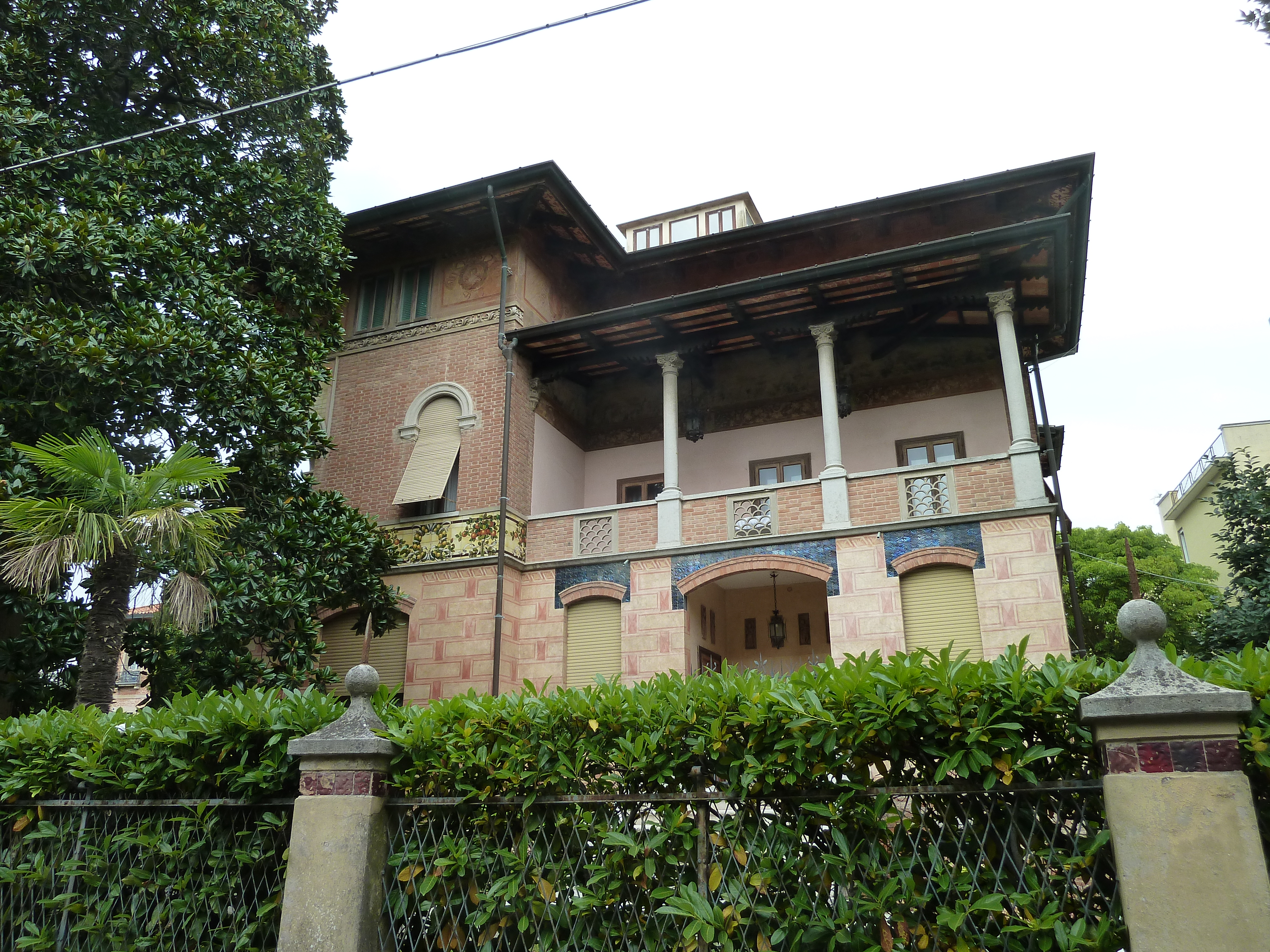 V.Gemma